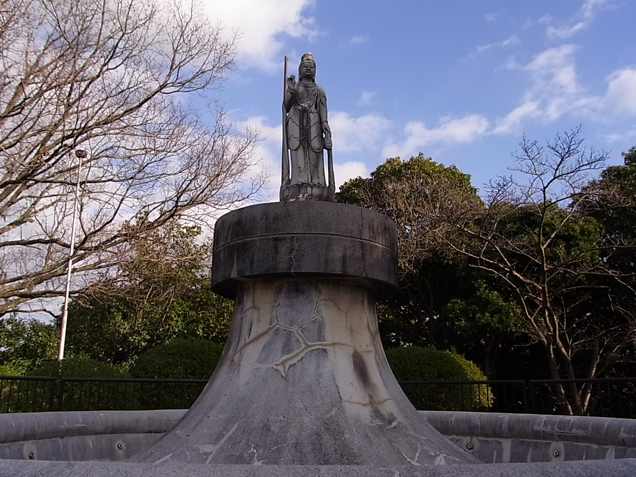 Mizuma park in Kaizuka city, Osaka, Japan